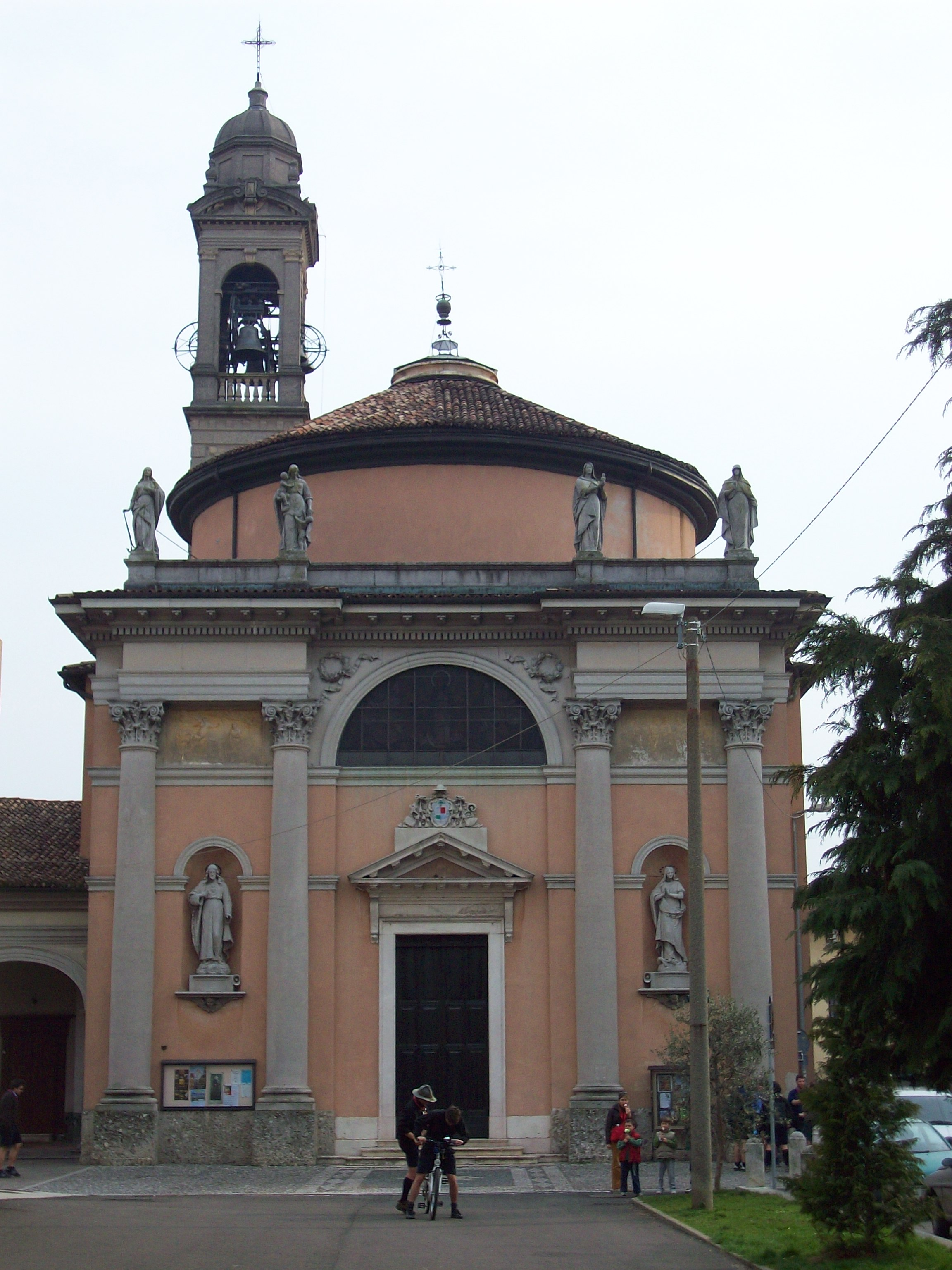 Church of St.Mary of Loreto, Bergamo, Italy